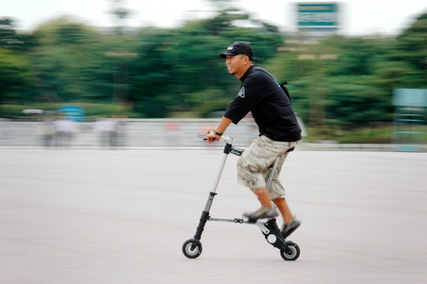 this guy who rides on Sinclair A-bike is Seong-Yong Jung. My friend. Me?? I'm Binch Shin ^_^